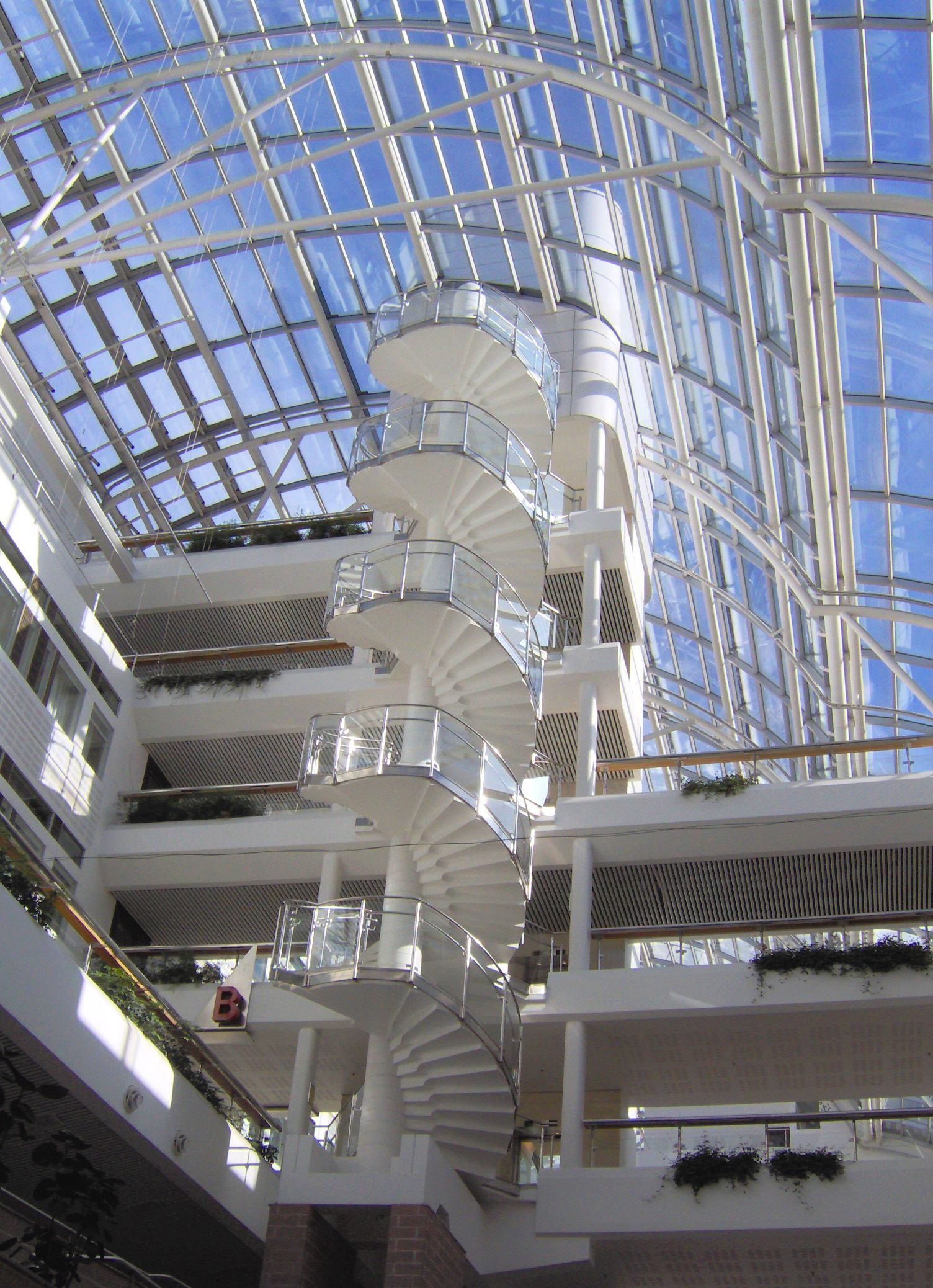 Cititerminalen Stockholm Sverige. Cityterminal for buses close to the main railway station in Stockholm, Sweden